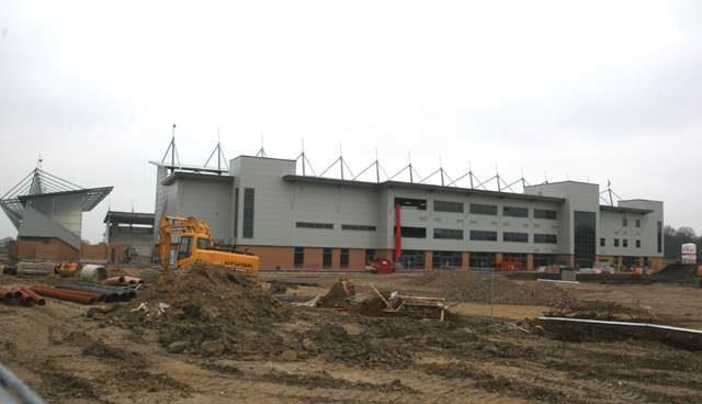 Colchester Community Stadium. Colchester United will move to this 10,000 seater stadium on completion.